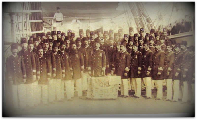 Head of Ottoman navy, Bozcaadalı Hasan Hüsnü Pasha (1832 - 1903).